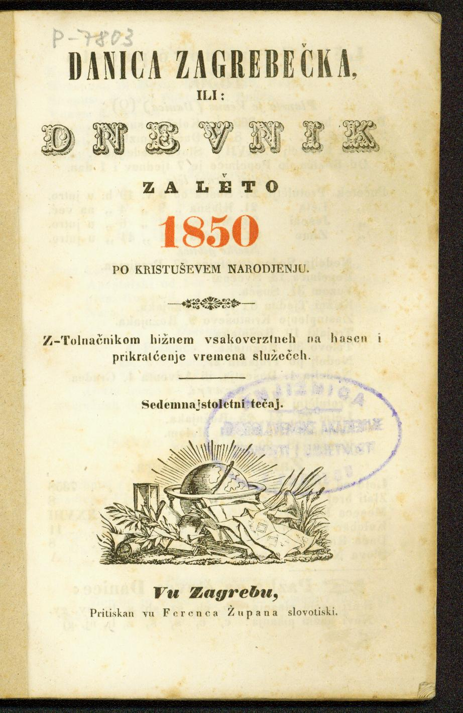 Danica zagrebečka (1850), calendar in Kajkavian Croatian language